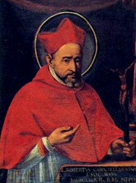 Saint Robert Bellarmine, Jesuit and Doctor of the Church Born 4 October, 1542, Montepulciano, Italy Died 17 September, 1621, Rome, Italy Venerated in Catholicism Beatified 13 May 1923 by Pope Pius XI Canonized 29 June 1930 by Pope Pius XI